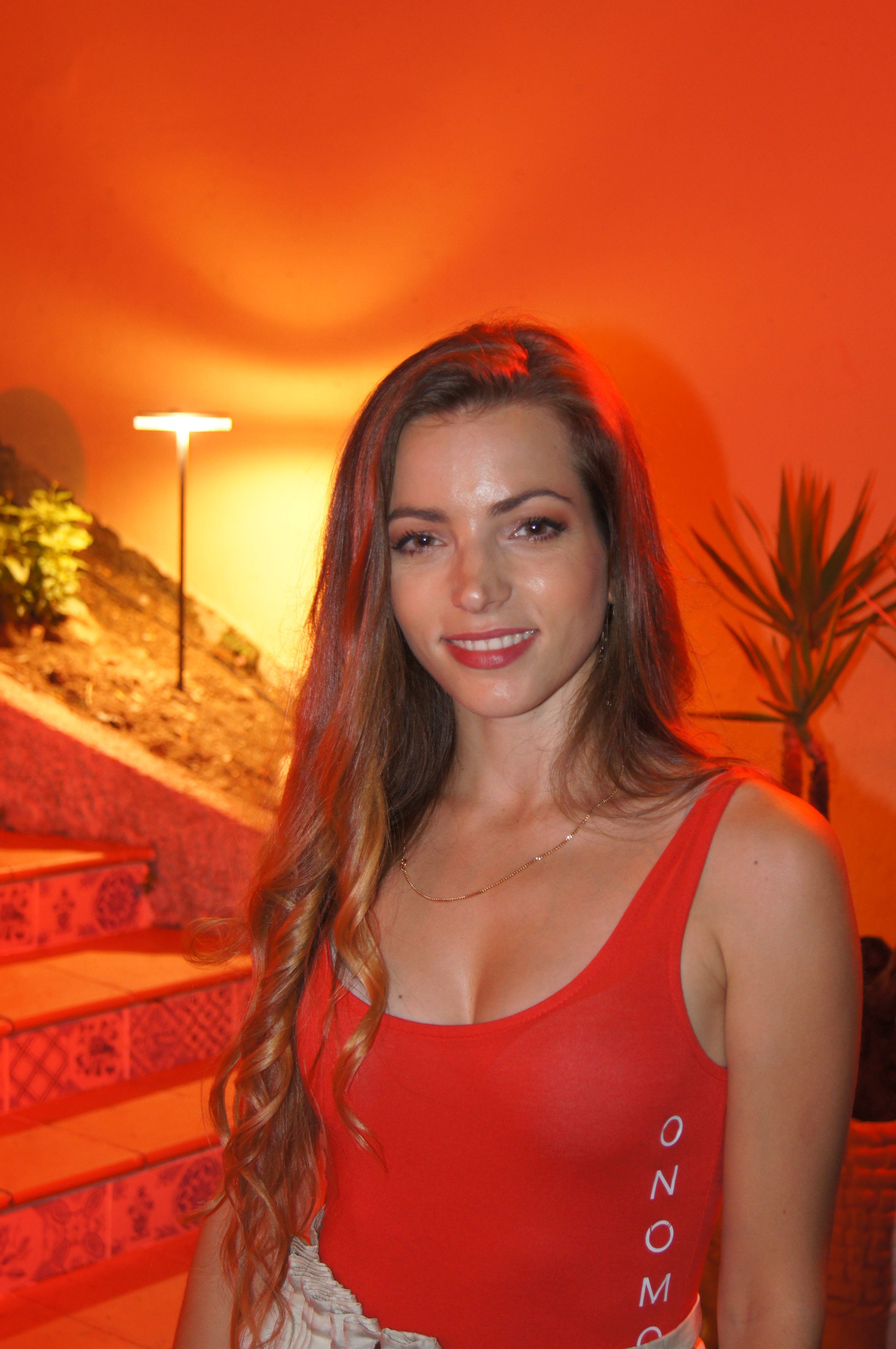 Italian actress Aurora Ruffino in Lago (Italy) during a fashon show